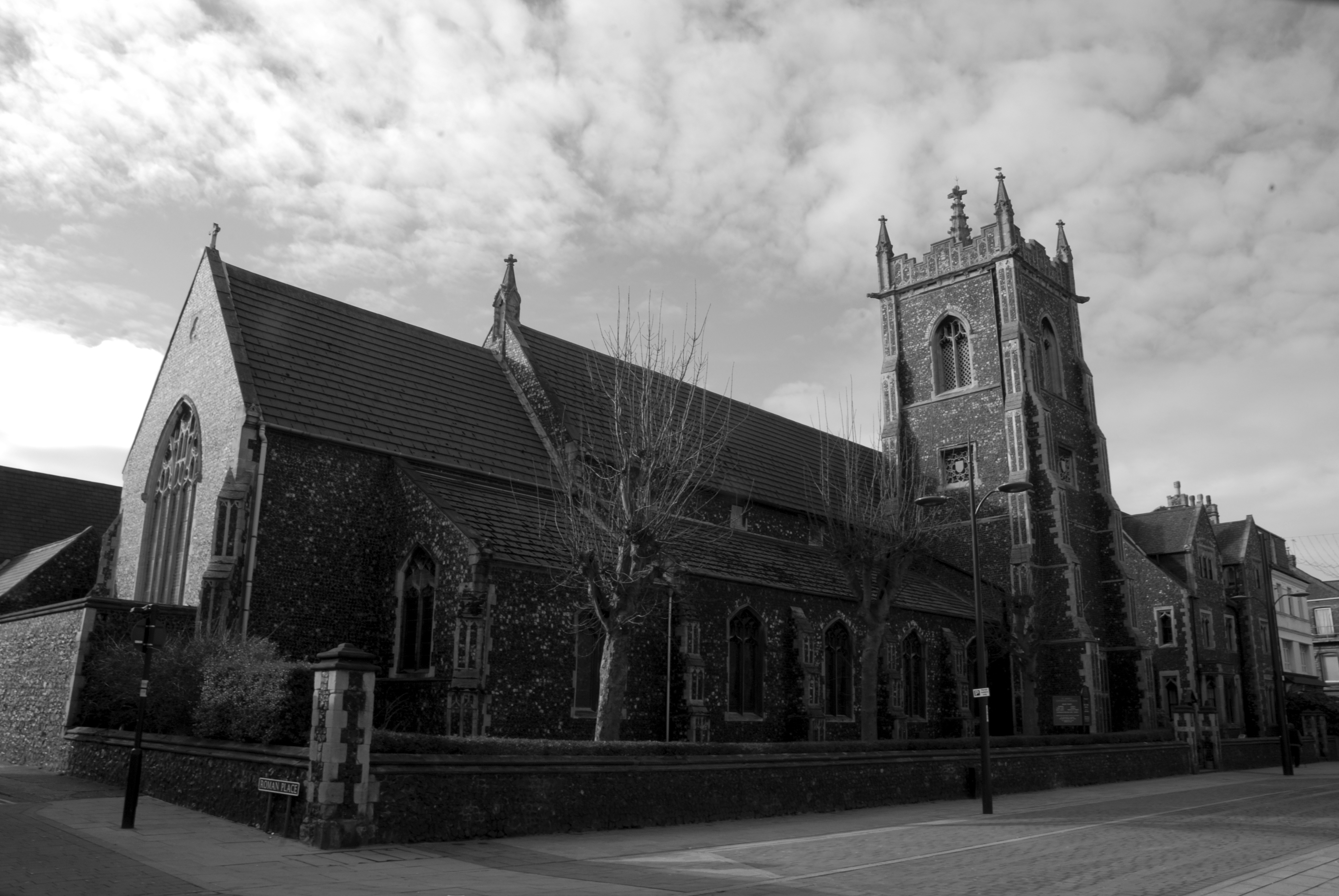 Roman Catholic church of St Mary, Regent Road, Great Yarmouth, Norfolk, seen from the northeast